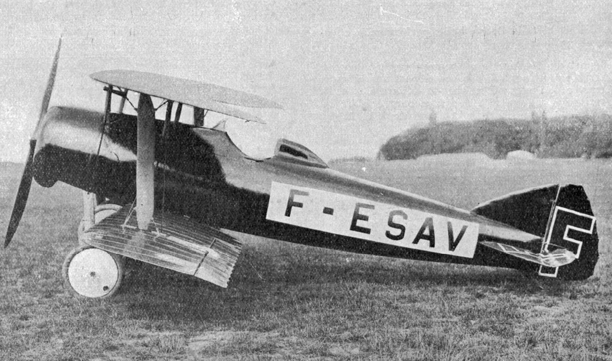 Bleriot SPAD S.25 photo from L'Aerophile October,1921